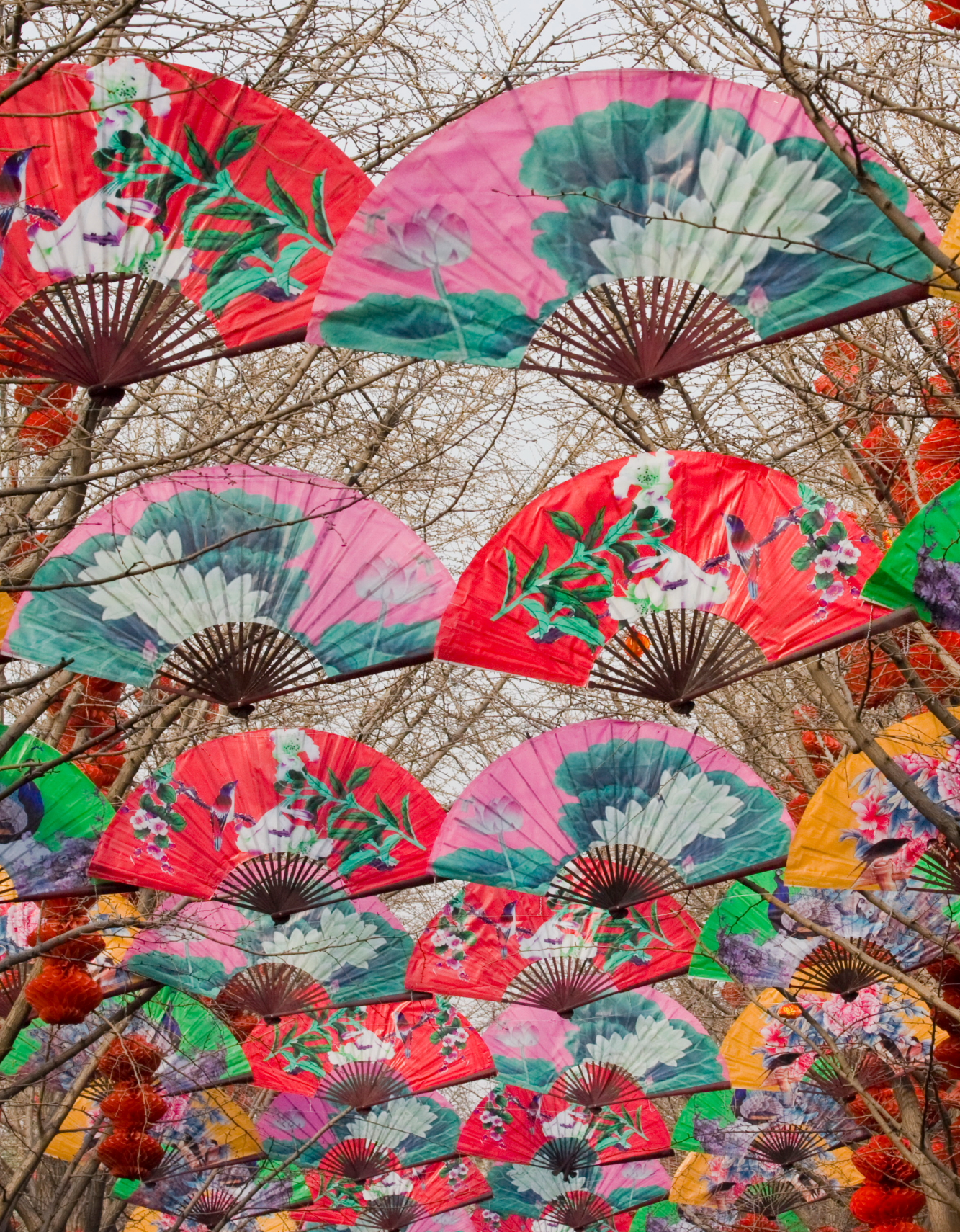 Colorful hanging fans at the festival during the Chinese New Year at the Temple of Earth in Beijing, China